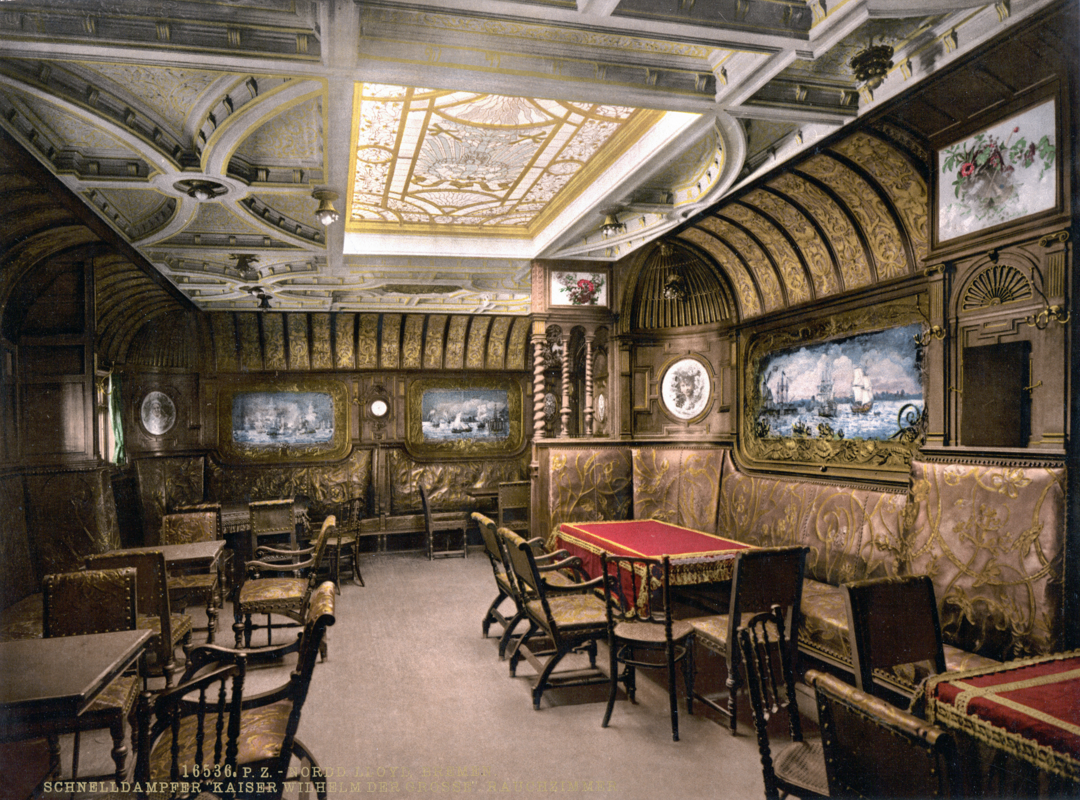 Postcard of SS Kaiser Wilhelm der Grosse's smoking cabin, North German Lloyd, Royal Mail Steamers. also available through Flickr